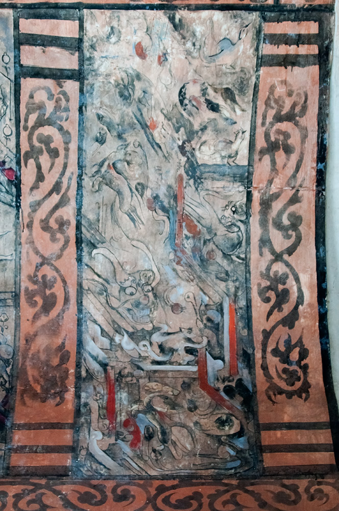 The Dahuting Tomb (Chinese: 打虎亭汉墓, Pinyin: Dahuting Han mu; Wade-Giles: Tahut'ing Han mu) of the late Eastern Han Dynasty (25-220 AD), located in Zhengzhou, Henan province, China, was excavated in 1960-1961 and contains vault-arched burial chambers decorated with murals showing scenes of daily life. For further information, see the Baidu article (in Chinese): 打虎亭汉墓. Click here for more pictures and a step-by-step walkthrough of the tomb, from the outside, down a stairwell, and through the vaulted burial chambers.